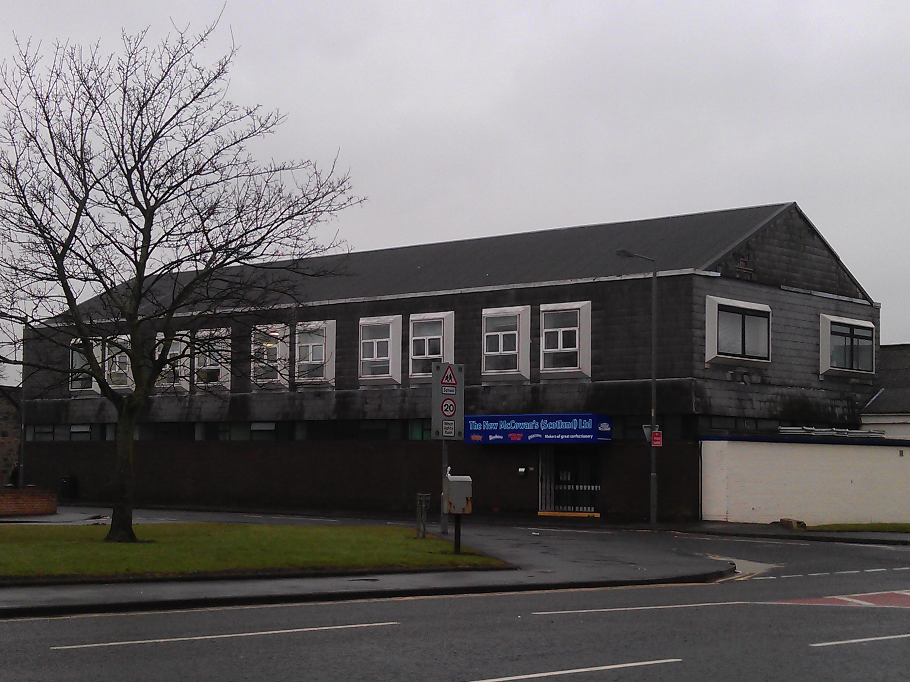 Photograph of McCowan's Toffee Factory shortly after its closure